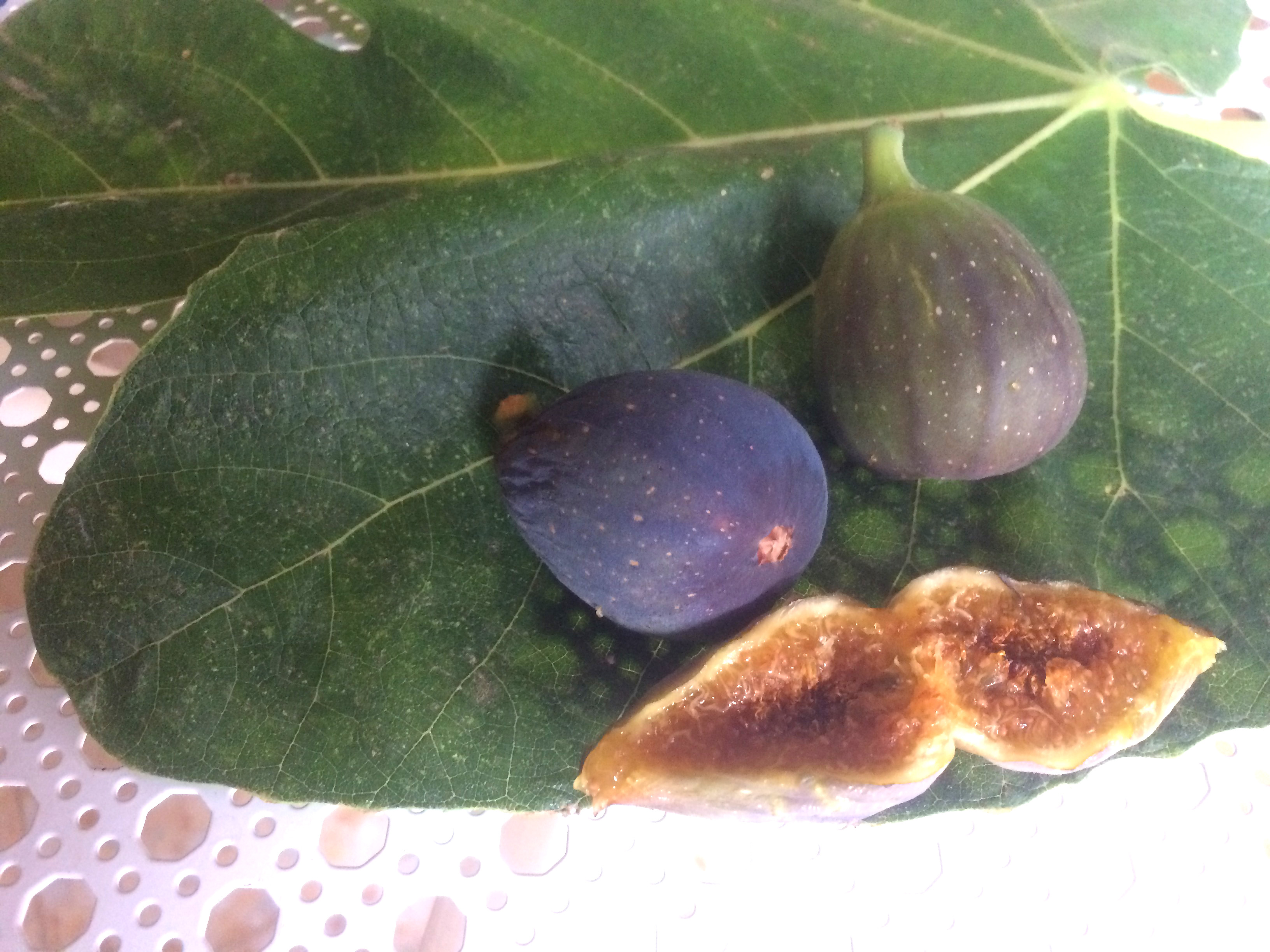 Figs 'Lloral' in Solana del Pino, Spain